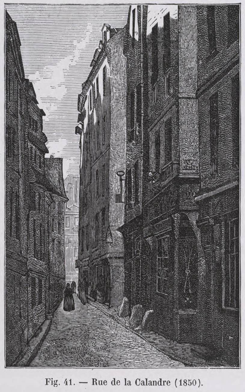 The street which demarcates one border of the historic area where the Saint-Germain le Vieux church and the Marché-Neuf were once situated. Seen here in 1850, little historic evidence remains of the area's former incarnations.